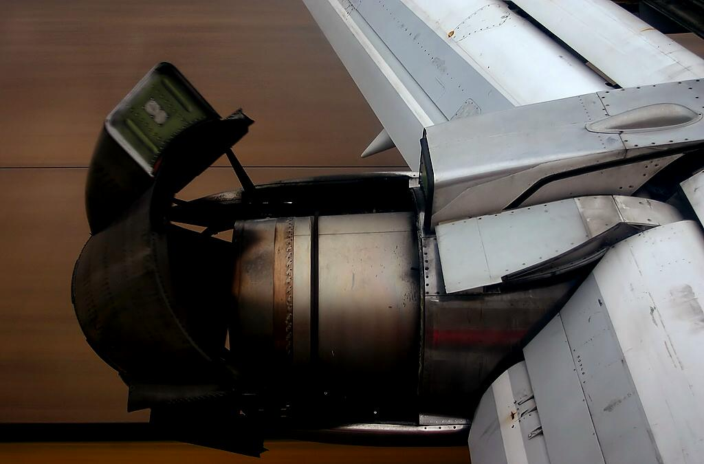 Thrust reverser deployed on the left engine of a Boeing 737-200.